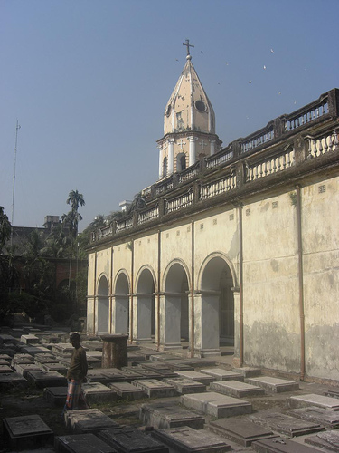 Dhaka's Armenian Church (1781) -- remnant of a bygone era. The caretaker is a Bangladeshi Hindu. The following info is courtesy of armenianlectionary. The Armenian Church of the Holy Resurrection was built in 1781 on the same location of an earlier, wooden chapel which served the cemetery. The church was consecrated by Bishop Ephraim, who later became the Catholicos of the Armenian Church in Echmiadzin in 1809. The name of the little hill is Armenitola. The steeple was originally constructed in 1837, but collapsed during the terrible earthquake of June, 1897. It was subsequently rebuilt. The oil paintings inside the church are attributed to C. Pote, and date to 1849. The original church was paid for through the beneficence of the Armenian merchants (jute trade) Michael Sarkies, Astwasatoor Gavork, Magar Pogose, and Khojah Petrus. The grounds for the cemetery were donated by Agah Catchik Minas. Two of the eminent Zemindars of Dacca's Armenian community were Agah Arathoon Michael, and Nicholas Pogose who founded the Dacca-Pogose School, later named Juggernath College. See Mesrob Jacob Seth's "Armenians in India" for more details.